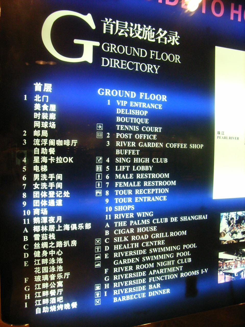 中國廣州沙面南街1號 The White Swan Hotel, GuangZhou, PRChina